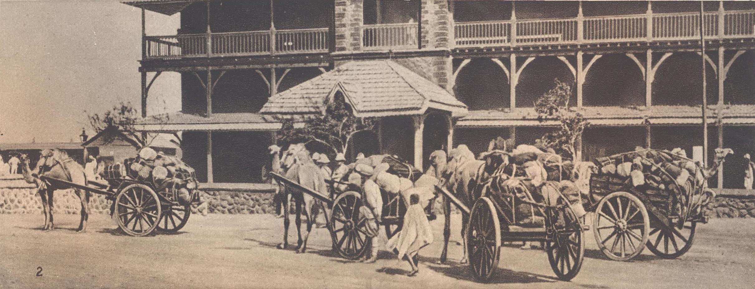 English Military Transport in Aden. "Album de la Grande Guerre" №10, 1915